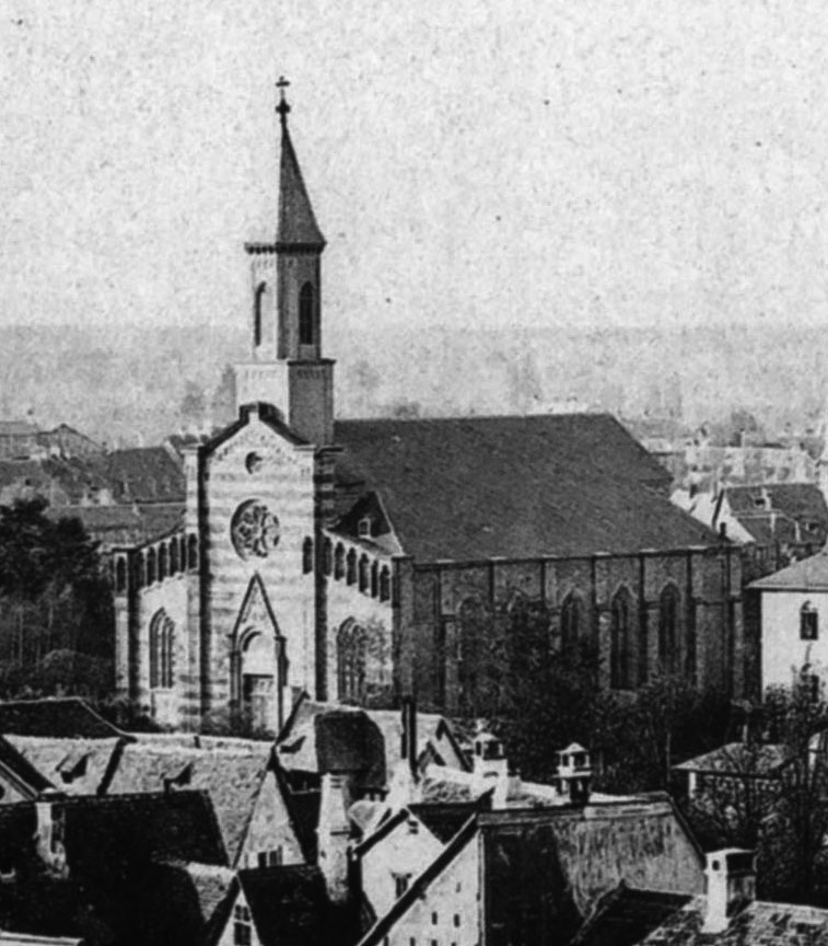 rk church Mariae Namen, Hanau